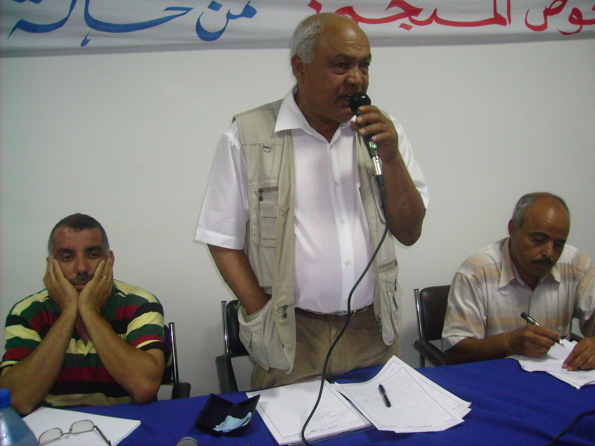 Ahmed Brahim, first secretary of the Tunisian political party Ettajdid, during a party meeting